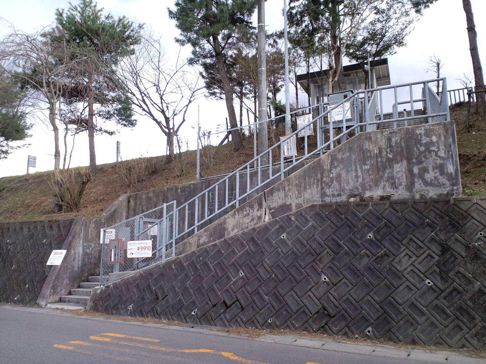 The entrance of Shimoyoshida bus stop. (For Tokyo)